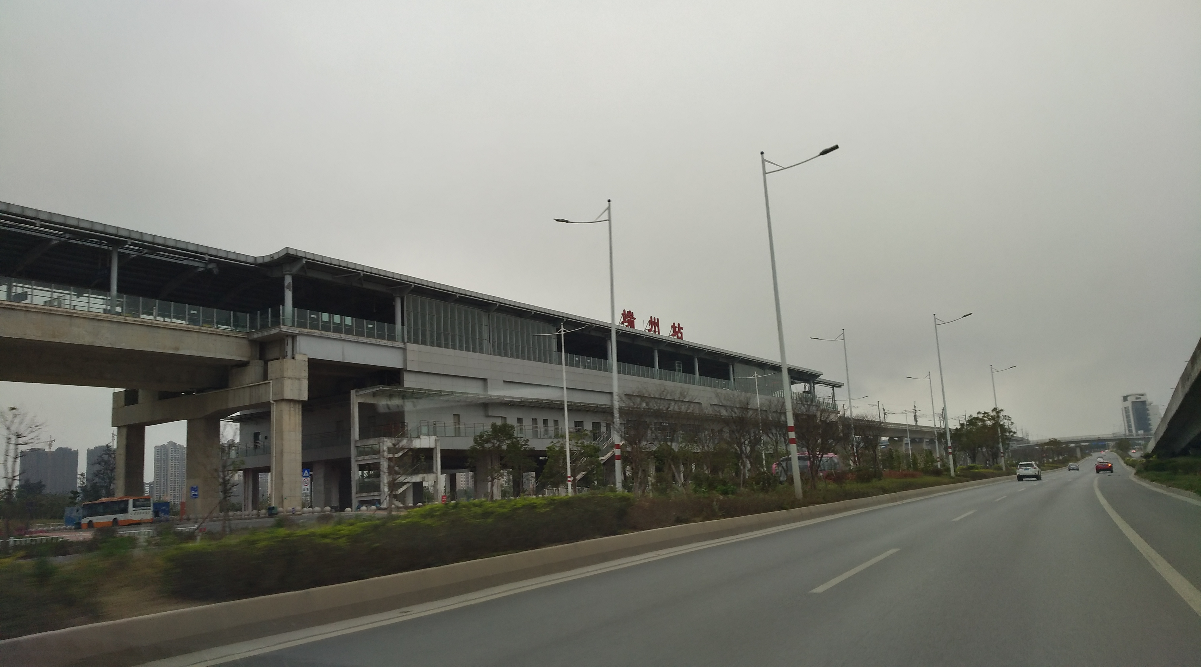 China National Railway Guangzhou-Foshan-Zhaoqing Intercity Rail Duanzhou Station building